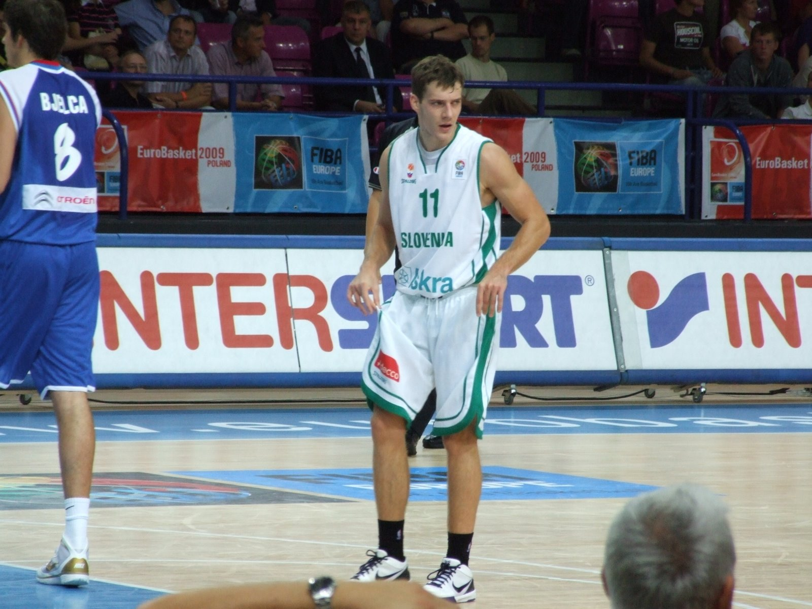 Slovenia vs. Serbia at EuroBasket 2009.